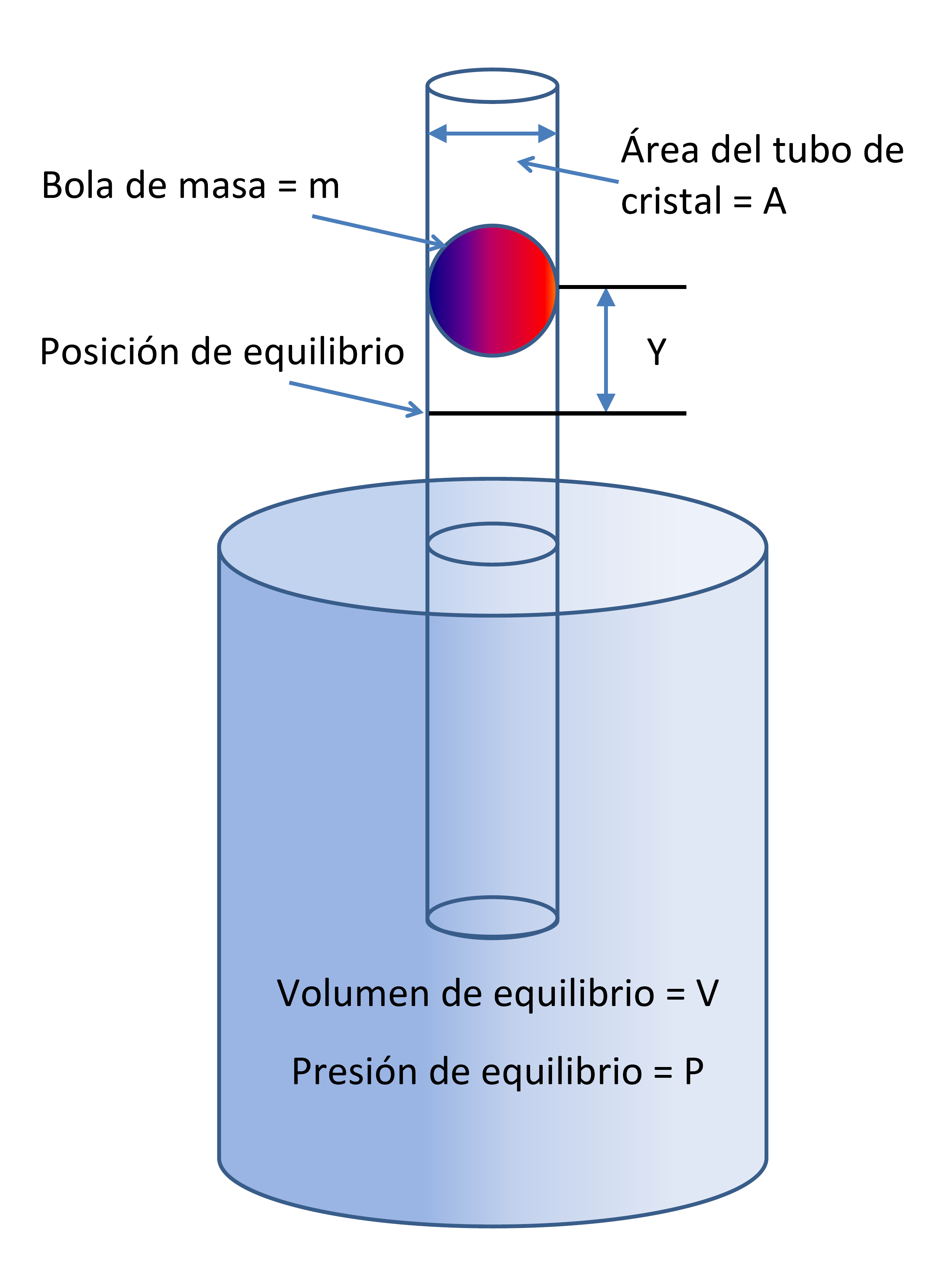 Created:Robert Watson